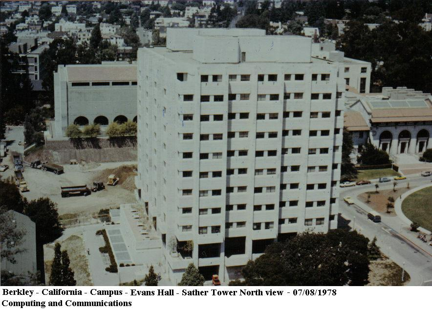 Berkeley - California - Campus - Evans Hall - 1978